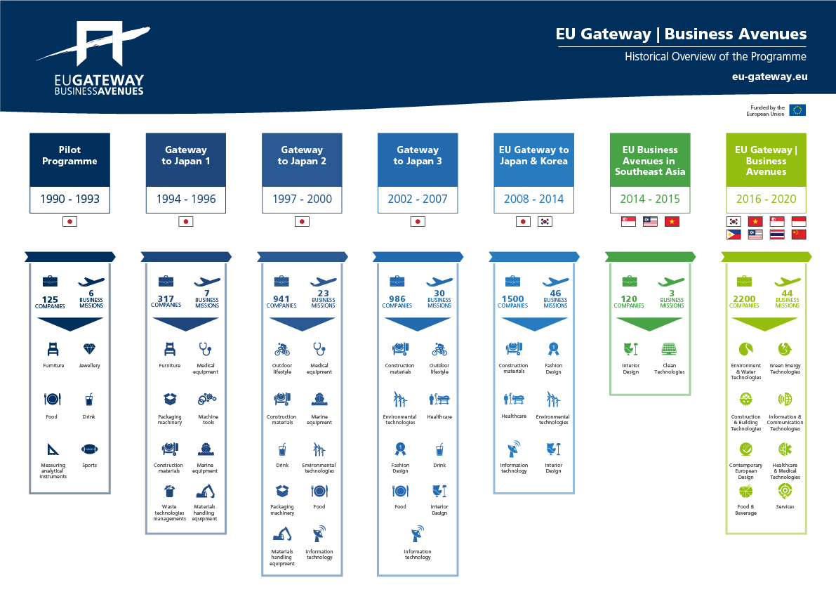 In 1990 the pilot EU Gateway Programme was created pursuing the European and Japanese resolve for equitable access to their respective markets and removing obstacles whether structural or other, impeding the expansion of trade and investment, on the basis of comparable opportunities. 2008 marked a new era in EU Gateway history as the programme was launched in another country, South Korea. In 2014, the EU Gateway programme reached 20 years of history in Japan and 6 years of presence in Korea. Between 2014 – 2015, three business missions were organised to Singapore-Malaysia and Singapore-Vietnam, and from 2016 to 2020 the Programme is targeting Korea, China, Japan, Singapore, Malaysia, Thailand, Vietnam, Philippines, Malaysia.